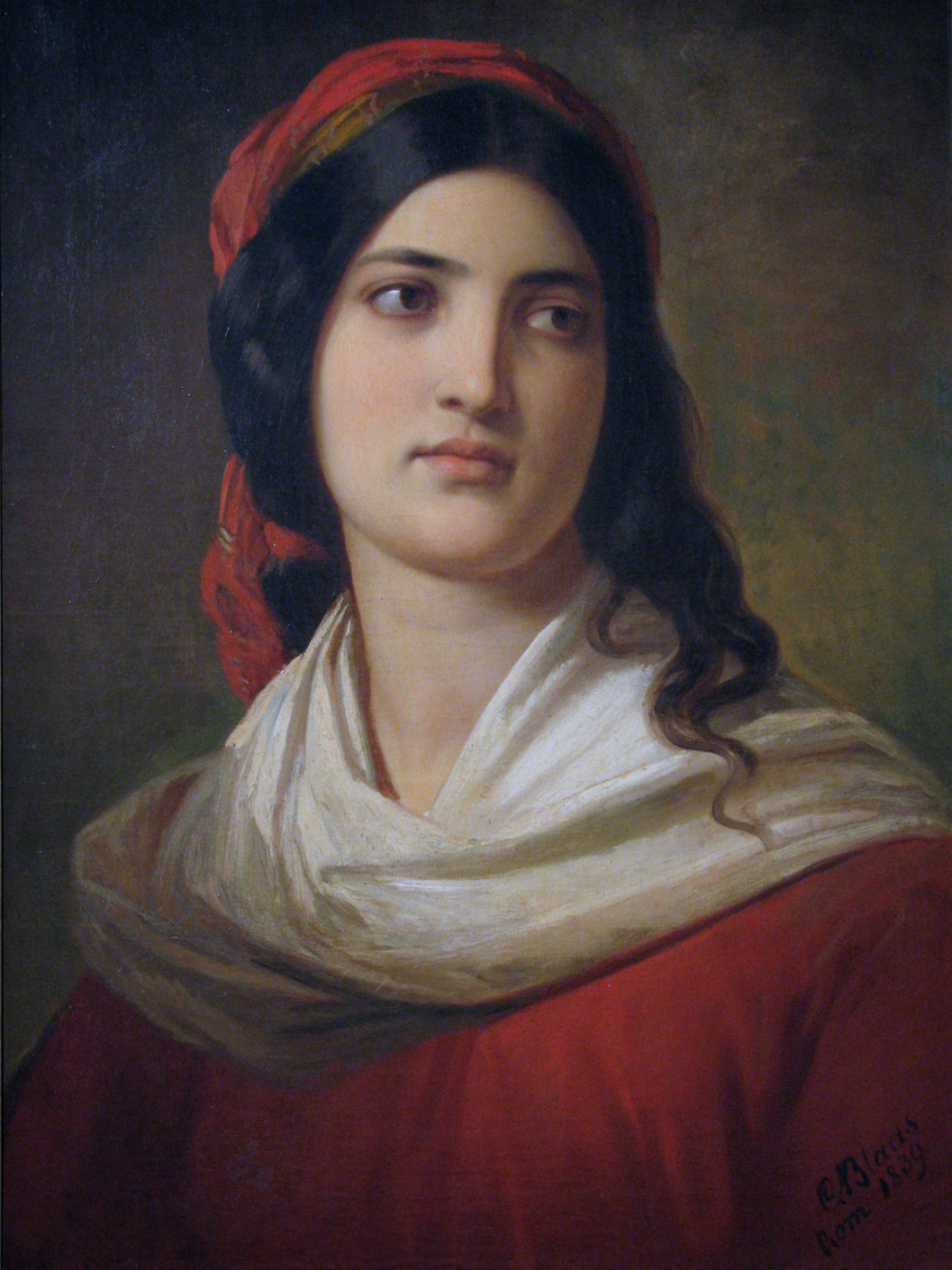 Portrait of Laura Bernabo painted by Karl von Blaas in 1839. Described in his autobiography on pages 136-138.